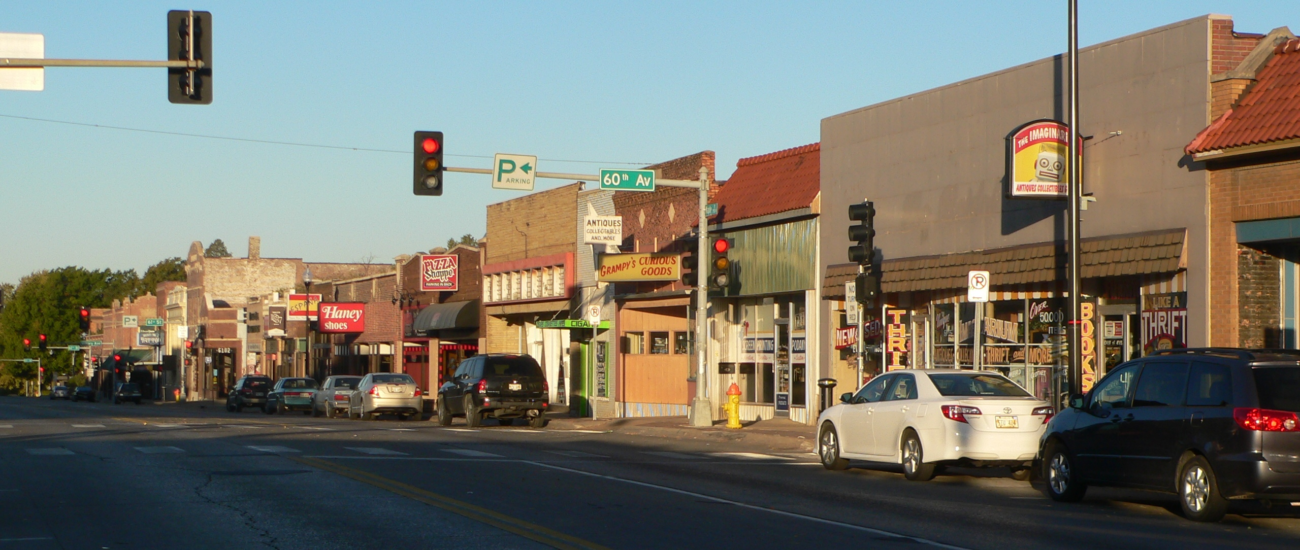 Benson neighborhood in Omaha, Nebraska: north side of Maple Street, looking northwest from between 60th Street (behind camera) and 60th Avenue (runs southward from a T-junction with Maple in front of camera).